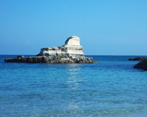 The rock called Tafaluro in Torre Sant'Andrea, Adriatic sea, seen from the beach. It is a bathing locality part of the town of Melendugno, Province of Lecce, Italy